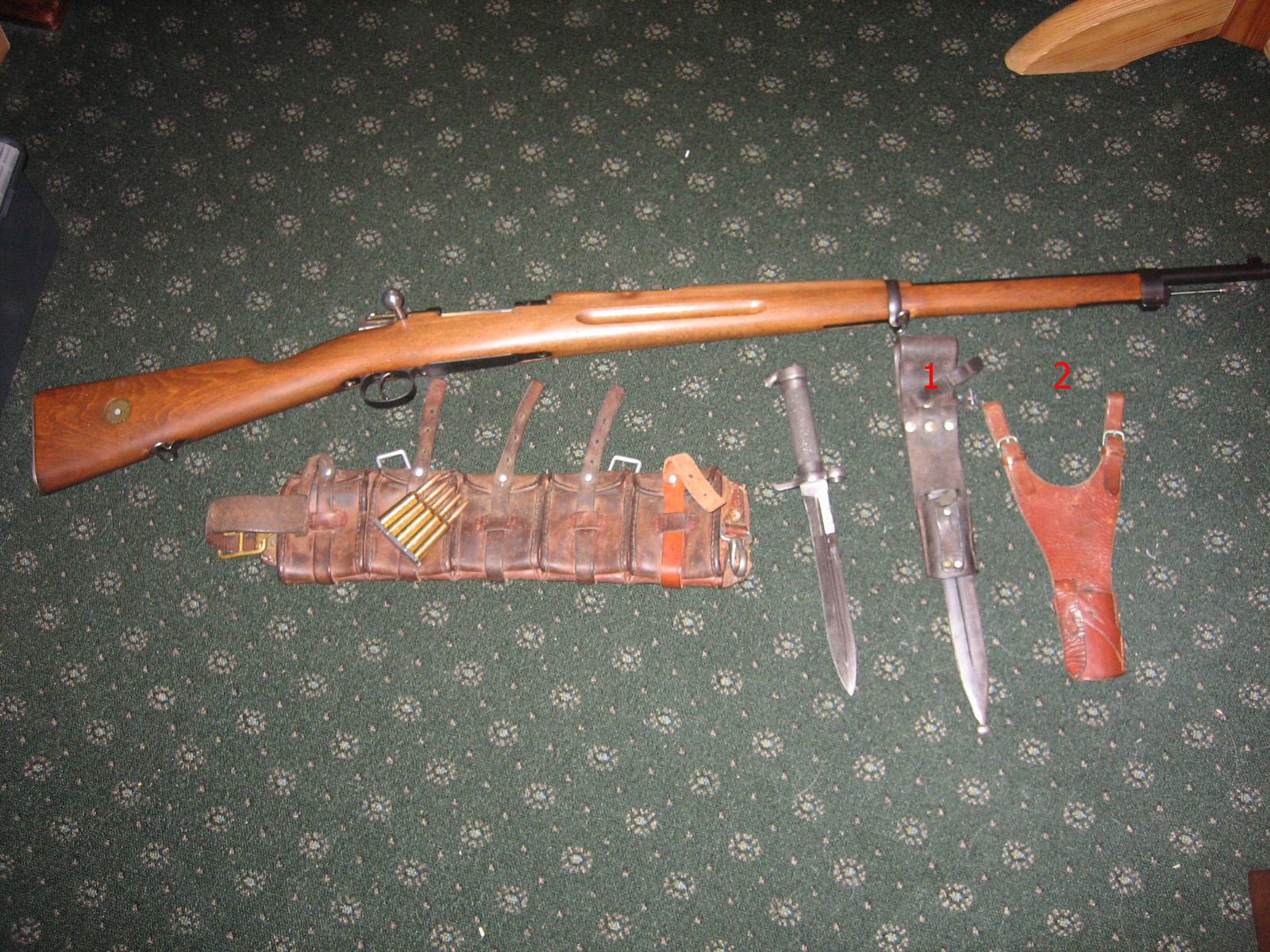 Carl Gustav M96 rifle, Bayonet, 2 diffrent bayonet frogs and Swedish Cartridge Belt. The frog marked 1 is the standard infantrymans frog, the one marked 2 is the officers frog. All items from my own collection.